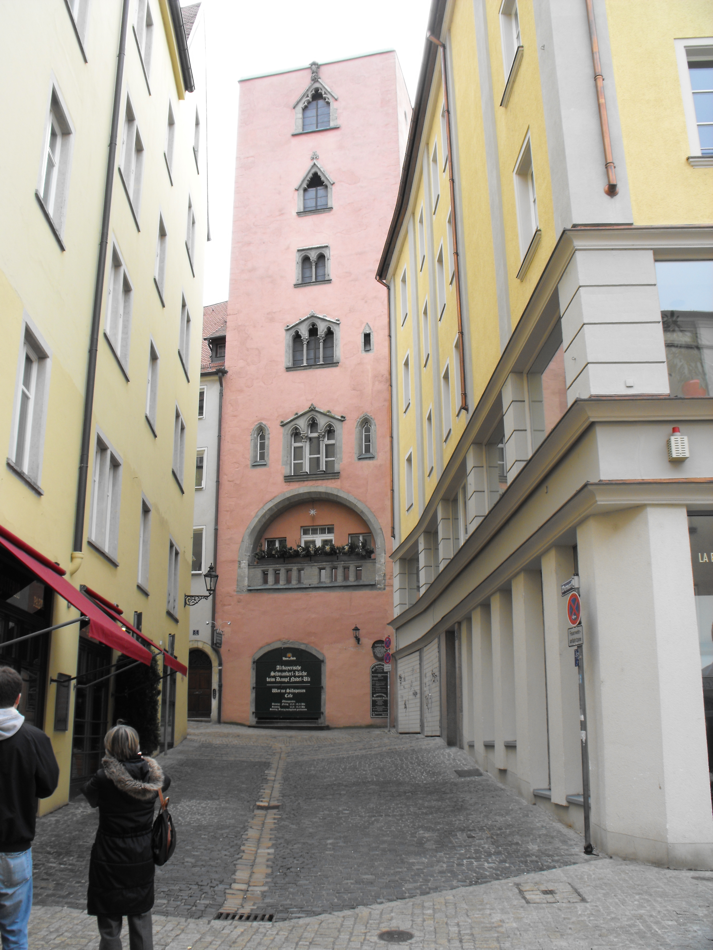 Regensburg, Germany